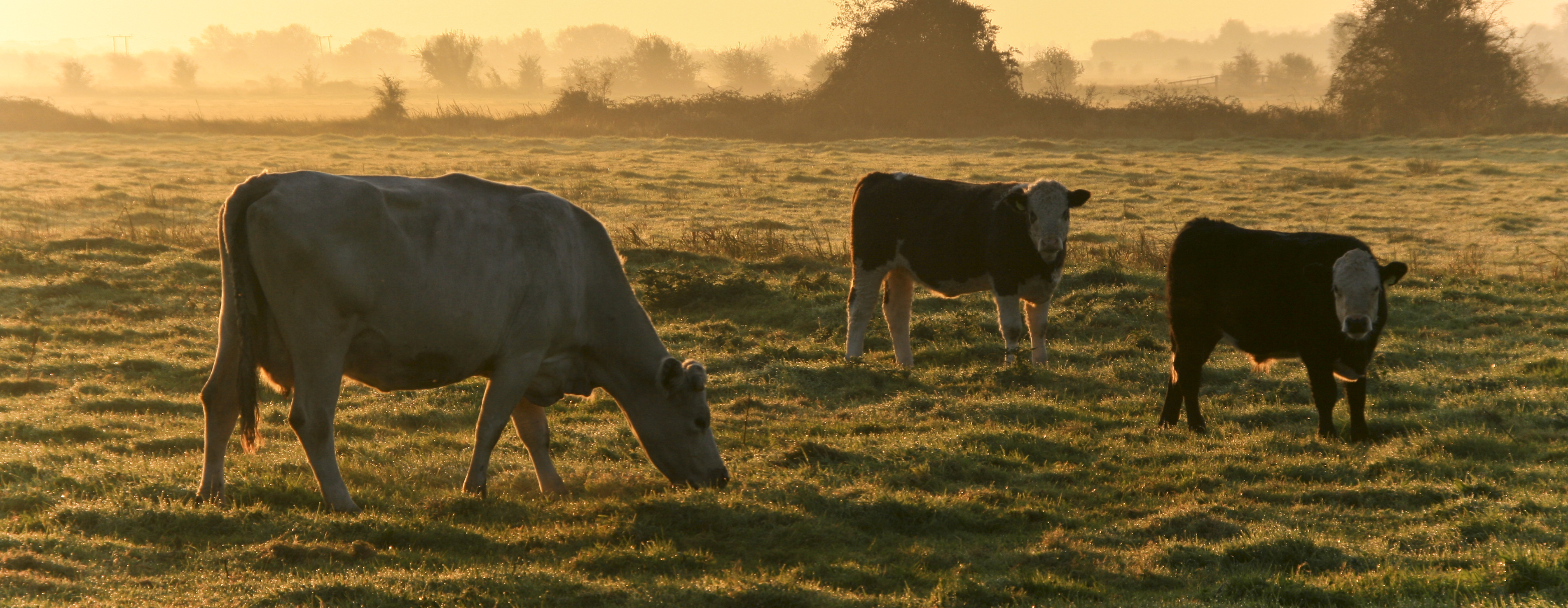 Cows grazing autumn morning, Somerset levels